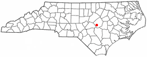 Category:North Carolina Dot Maps